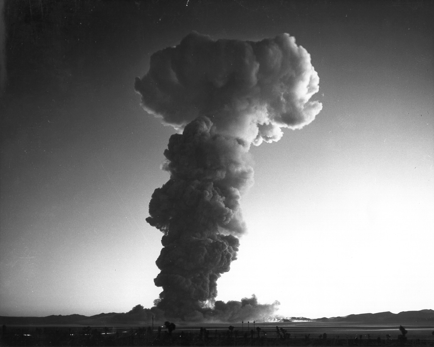 Hood’s mushroom cloud begins to form above Yucca Flat. The July 5, 1957 above nominal shot sent a thermal wave across the desert, igniting bushes and other growth on nearby foothills near the surface of the ground.